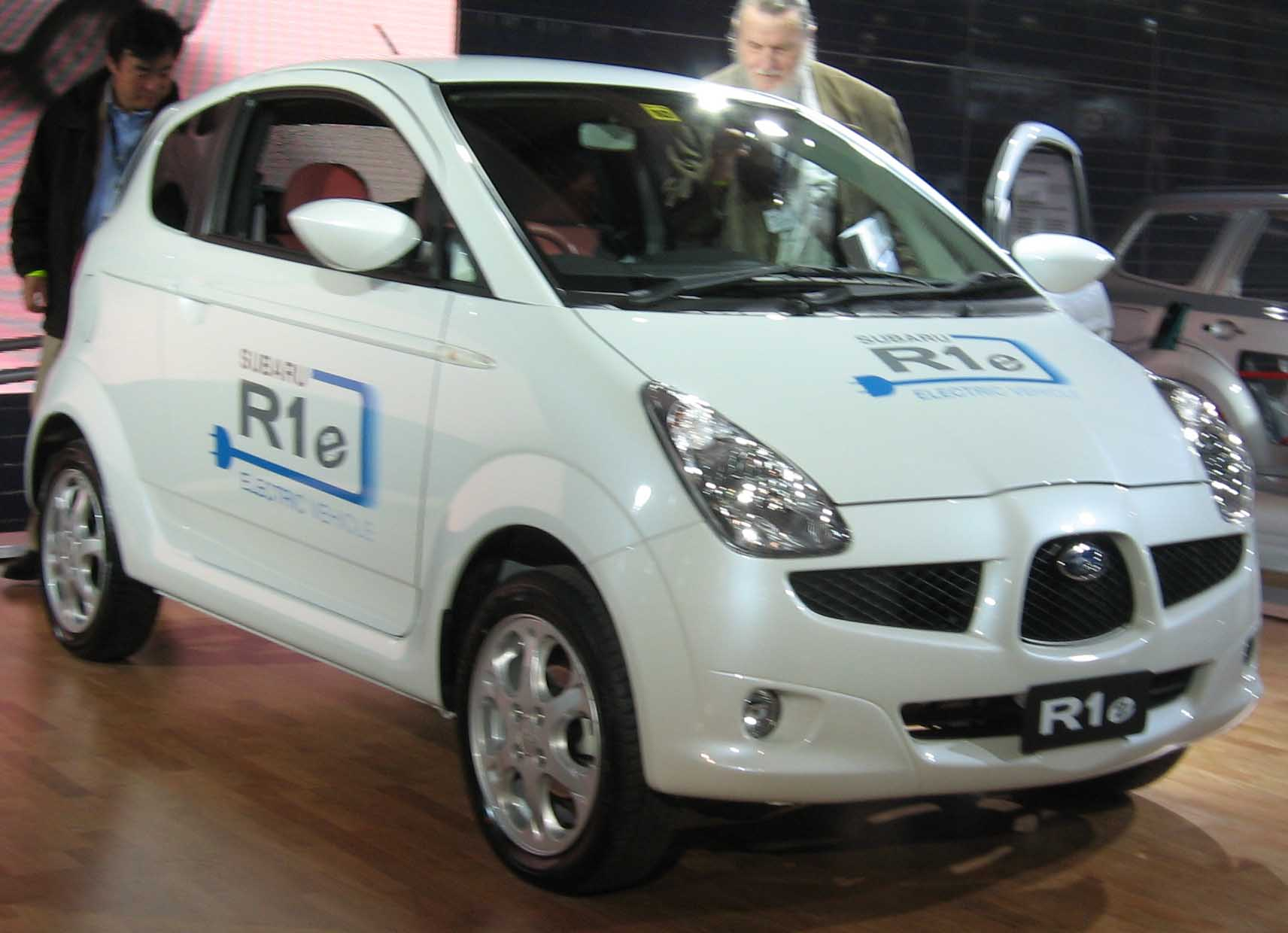 Subaru R1e photographed at the 2008 New York Auto Show.